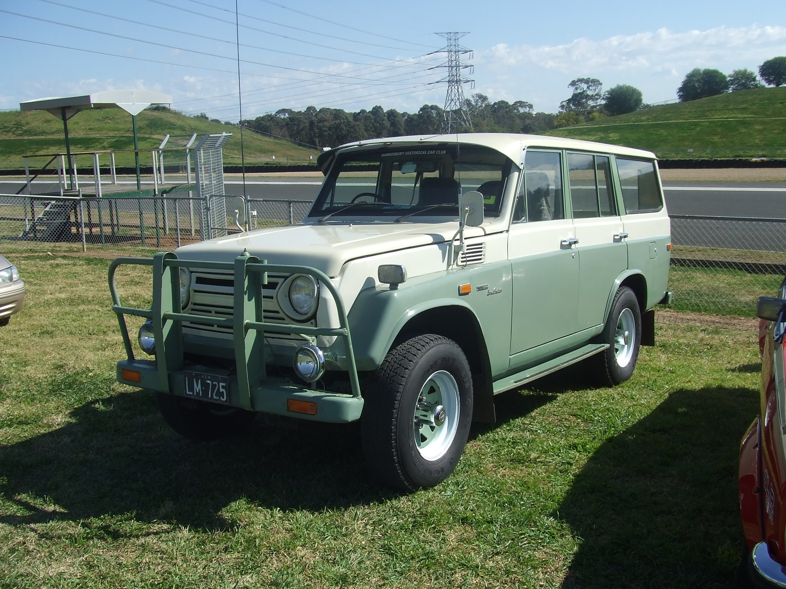 Toyota Landcruiser FJ55